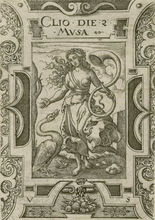 Muse Clio from the illustrations to Ovid by Virgil Solis (1562).